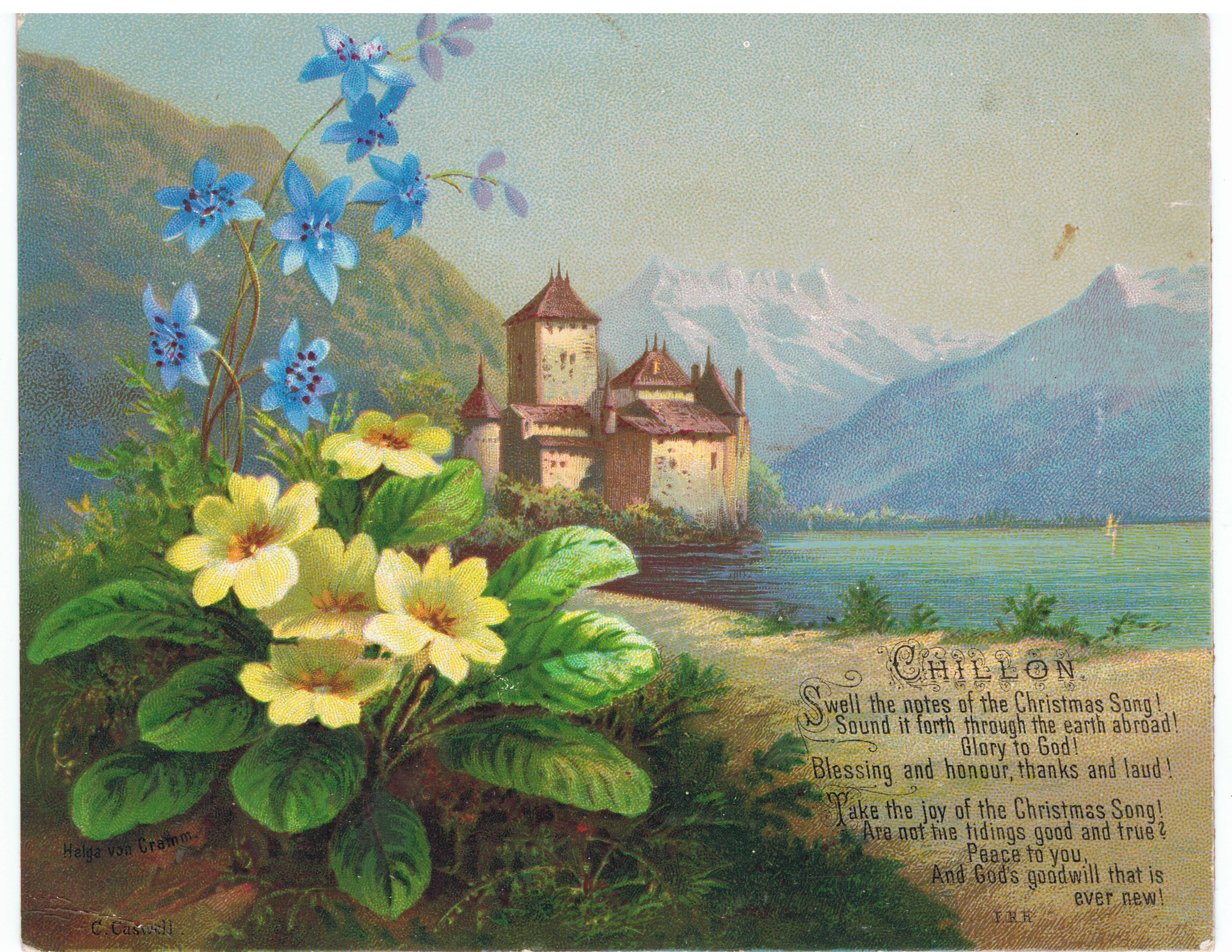 Scan (by me, R. de Salis, Rodolph (talk) 10:40, 16 January 2015 (UTC)), of a Helga von Cramm, chromolithograph, of Chillon, with F. R. Havergal poem, C. Caswell publisher, 1870s. (4.5 x 5 5/8ths inches, 144 x 114mm). Kattie Taylor. Middlewood Hall [Darfield, Barnsley], Xmas 1879.